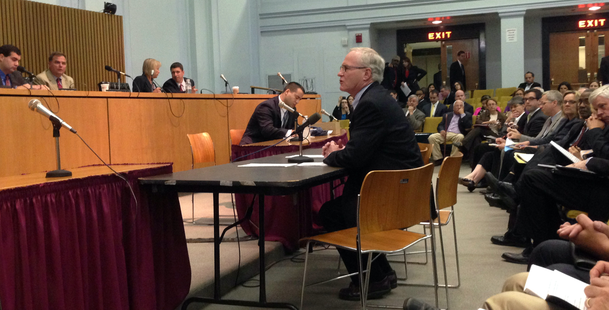 Senator Barrett testifies at a committee hearing.